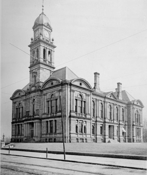 New Castle County Court House, Wilmington, Delaware (1879-80), Theophilus P. Chandler, architect.